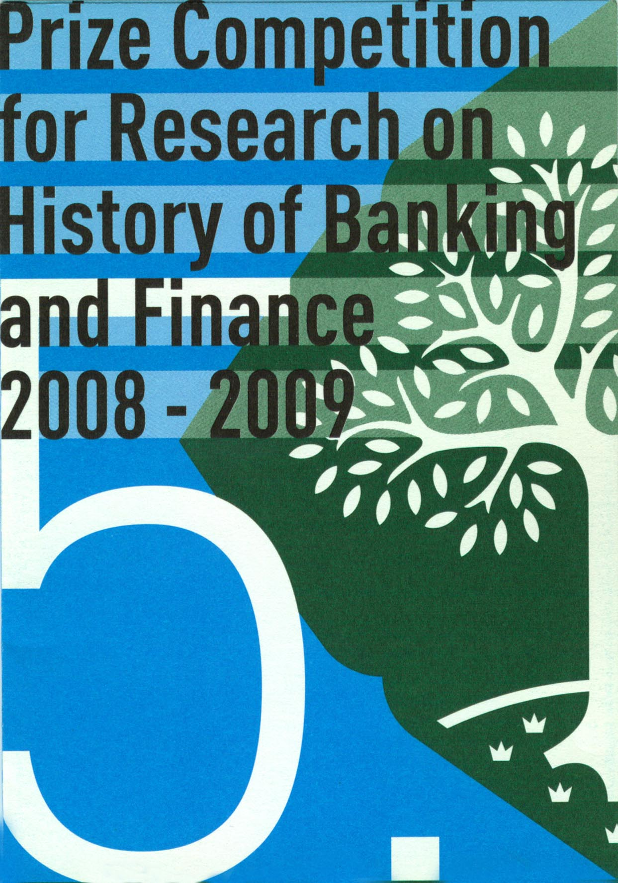 From 2000 to 2009, to encourage academic research in the field of Turkish banking, financial and economic history, the Ottoman Bank Archives and Research Centre (OBARC) held a bi-annual competition in collaboration with the European Association for Banking and Financial History and the History Foundation. Prize-winning papers were regularly published by OBARC.